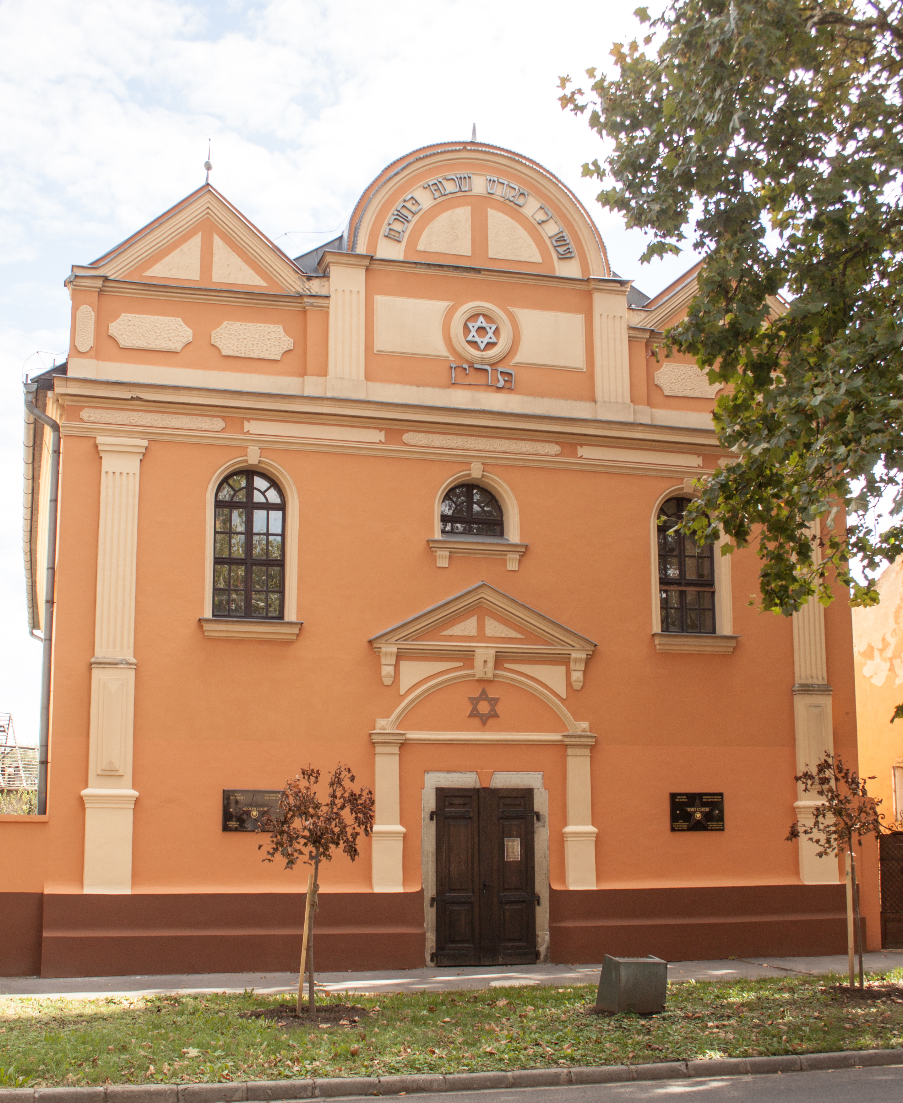 Exterior of the Synagogue in Mátészalka